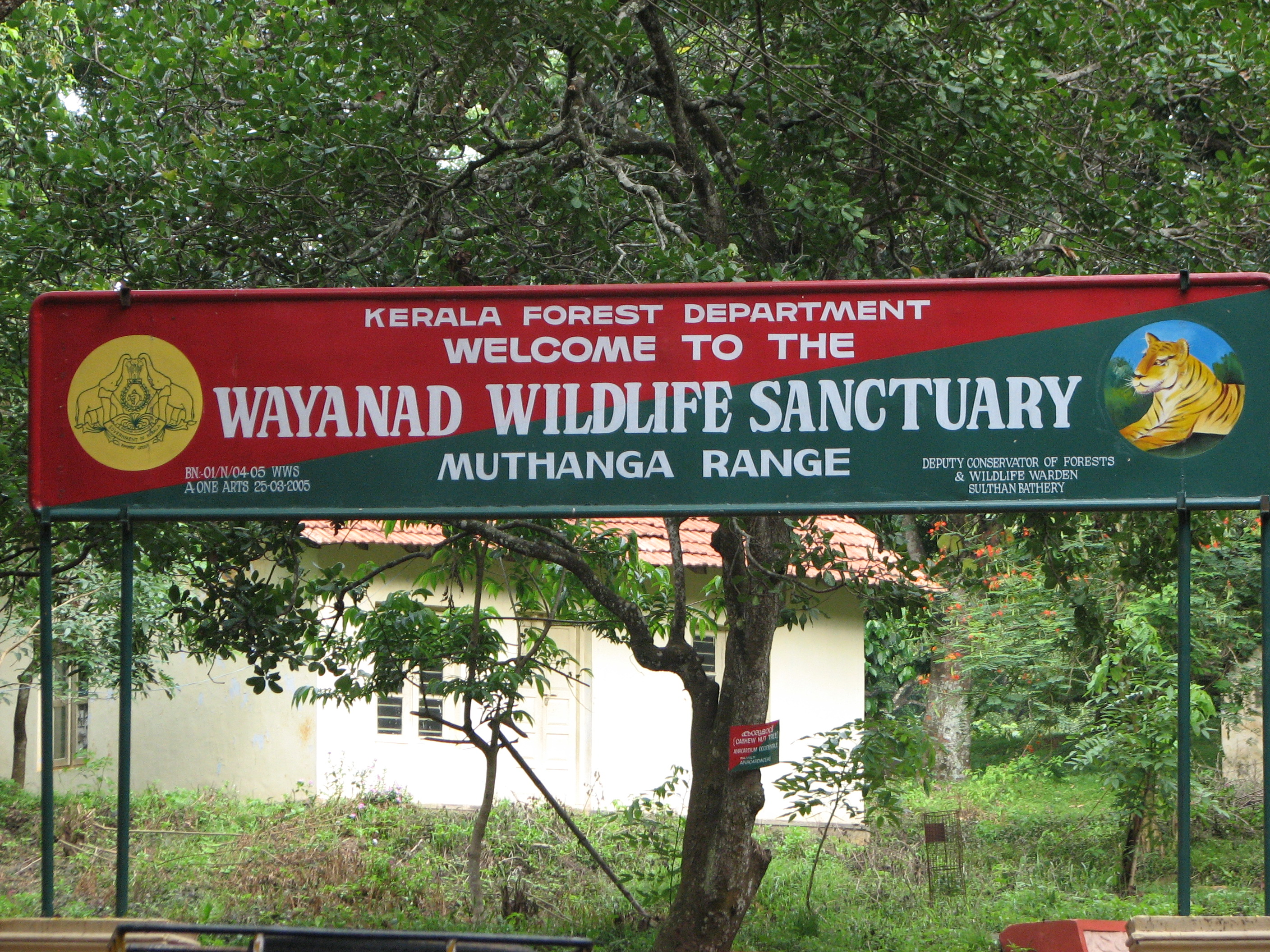 It is the Entrance of Wayanad Wild Life sanctuary Muthanga. This media file is uploaded with Malayalam loves Wikimedia event.